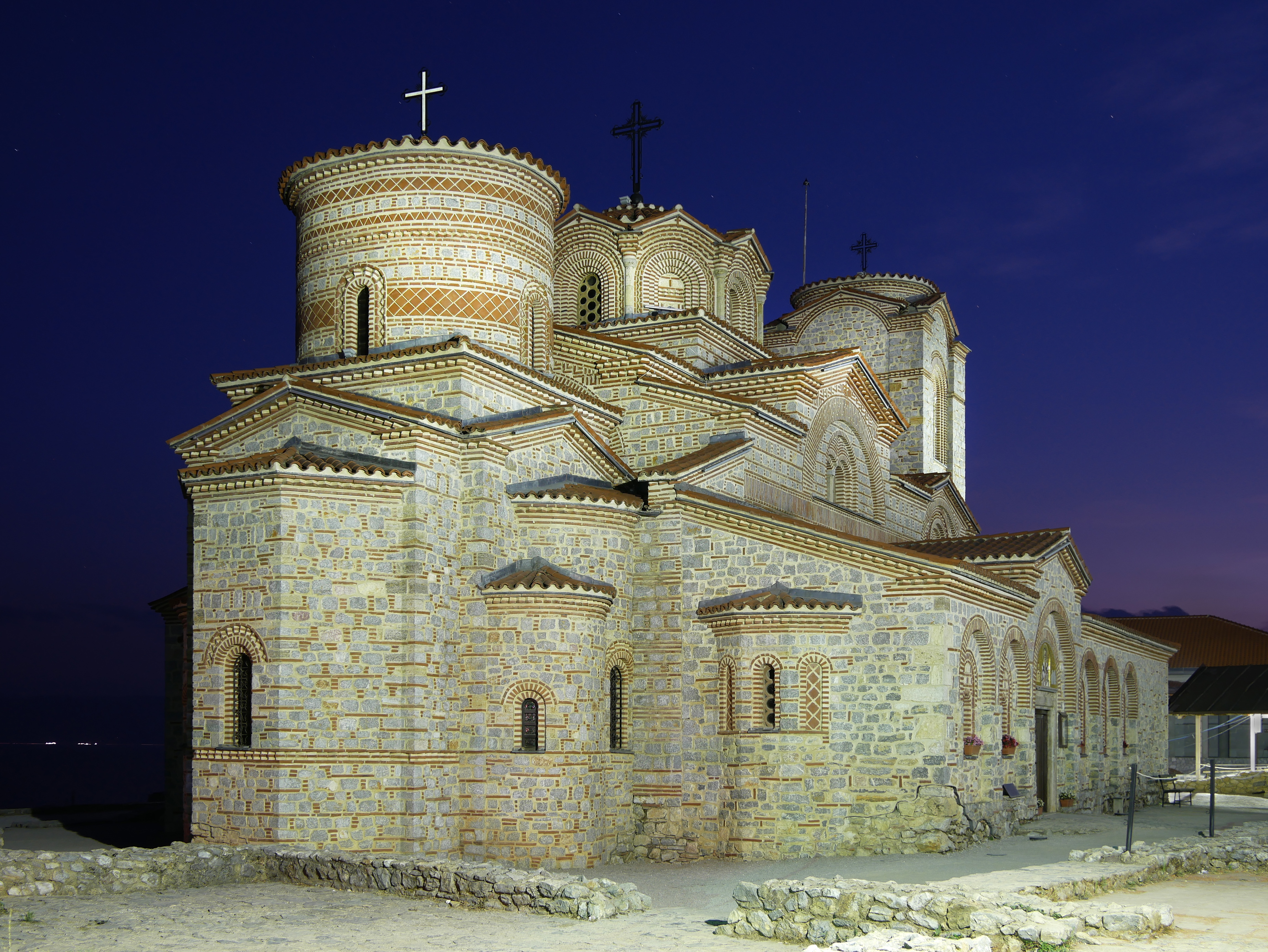 Church of Saints Clement and Panteleimon (Ohrid), Republic of Macedonia This photograph was taken with a Panasonic Lumix DMC-G85/G80